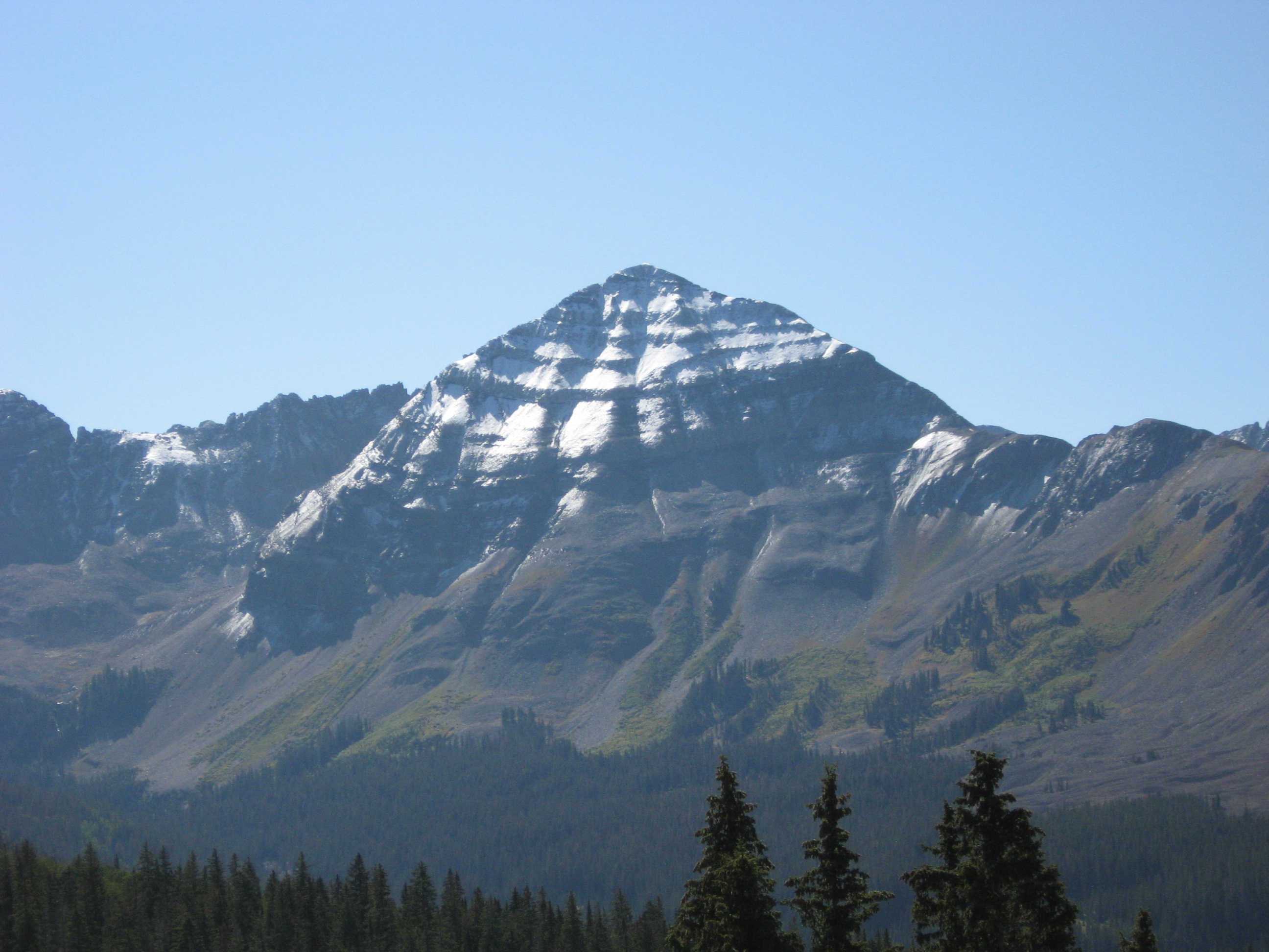 Hesperus Mountain as seen from the north while on approach to the Sharks-tooth trailhead.